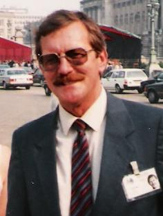 Clive Derby-Lewis in Brussels as delegate to the World Anti-Communist League Conference.